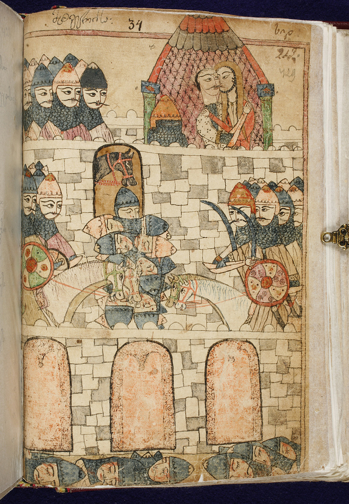 "naxes mzisa shesakrelad...". A miniature by Mamuka Tavakalashvili from the manuscript of Shota Rustaveli's "Knight in the Panther's Skin". H599. 429r. National Center of Manuscripts, Tbilisi, Georgia